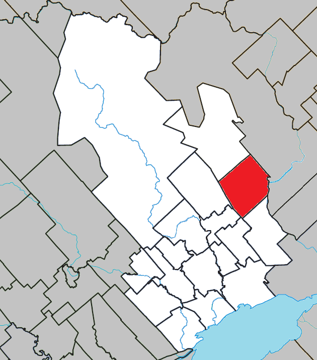 Location of Saint-Boniface, Quebec within Maskinongé Regional County Municipality.